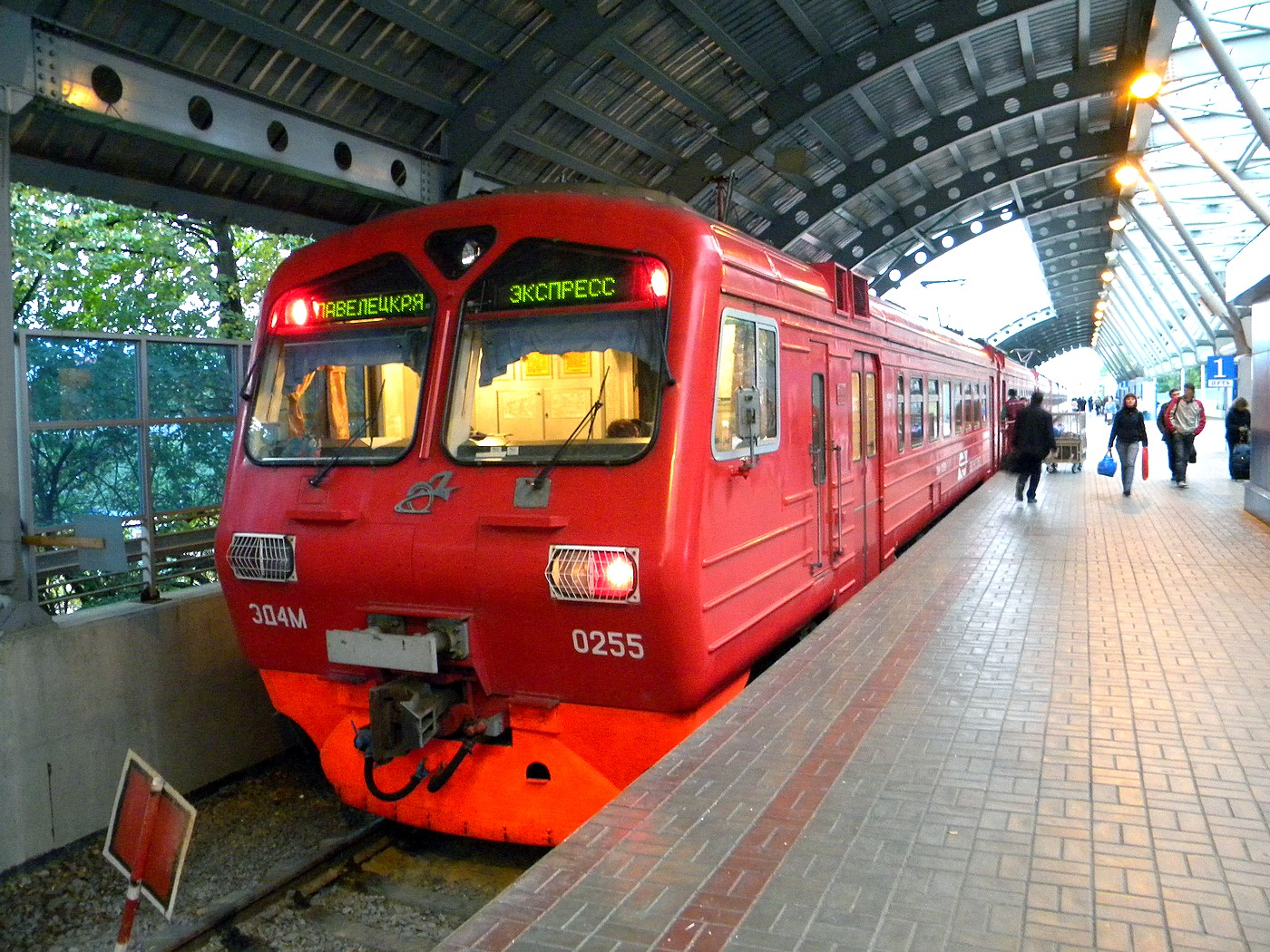 Train station Aeroport [Domodedovo], Moscow Oblast, Электропоезд ЭД4М-0255